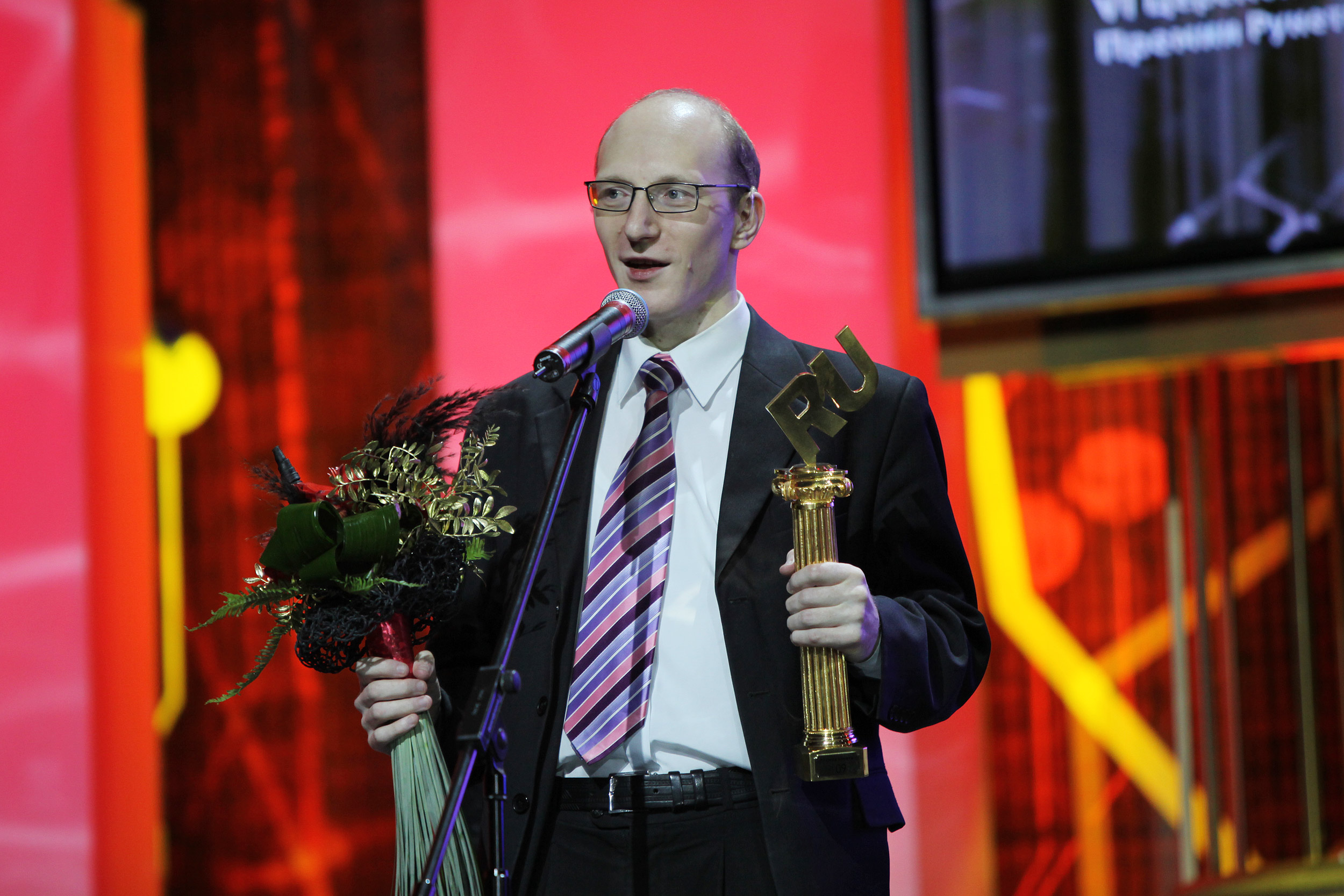 Premia Runeta 2009. Wikipedia wins